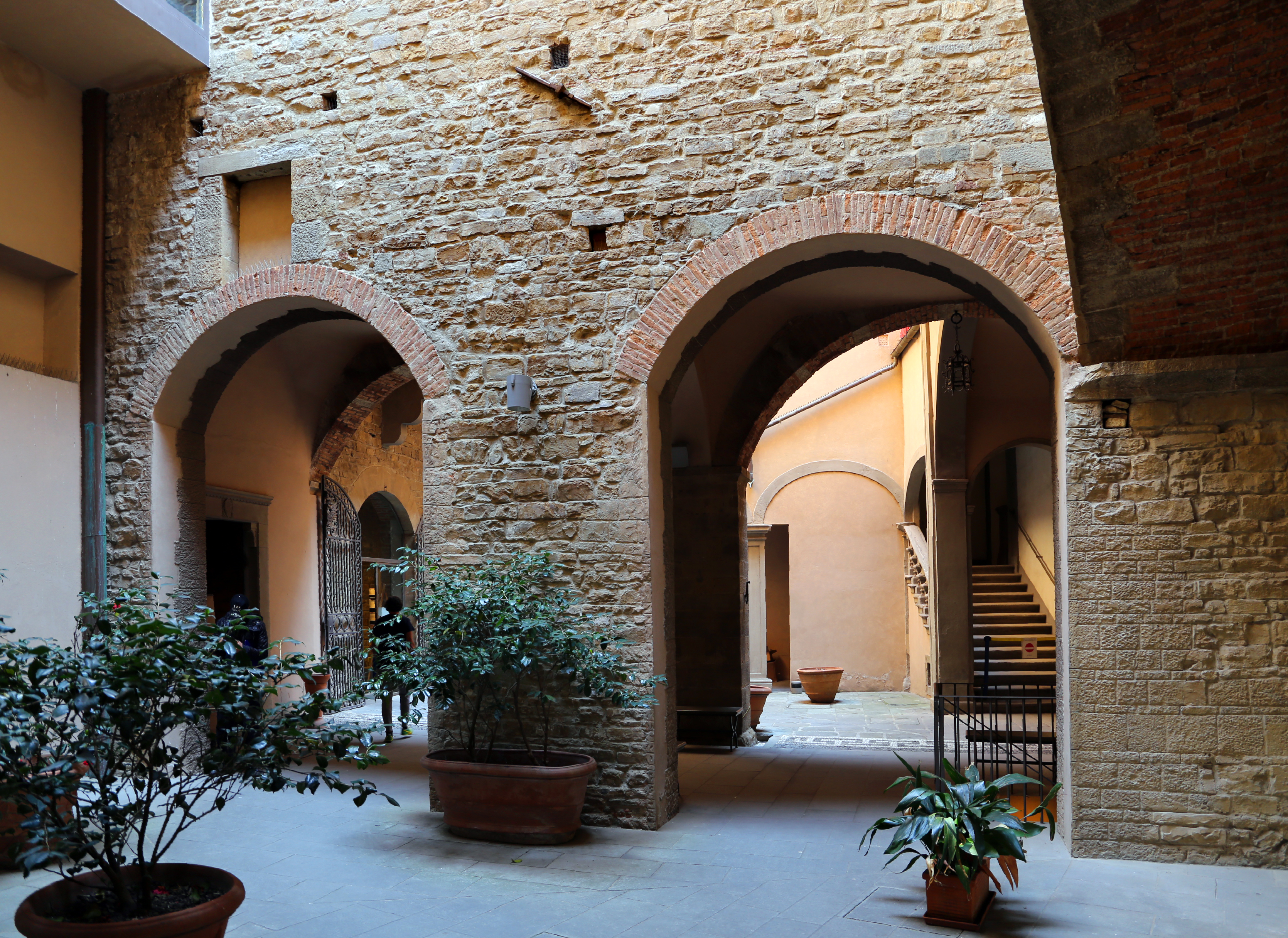 Palazzo Peruzzi-Bourbon del Monte - Interior